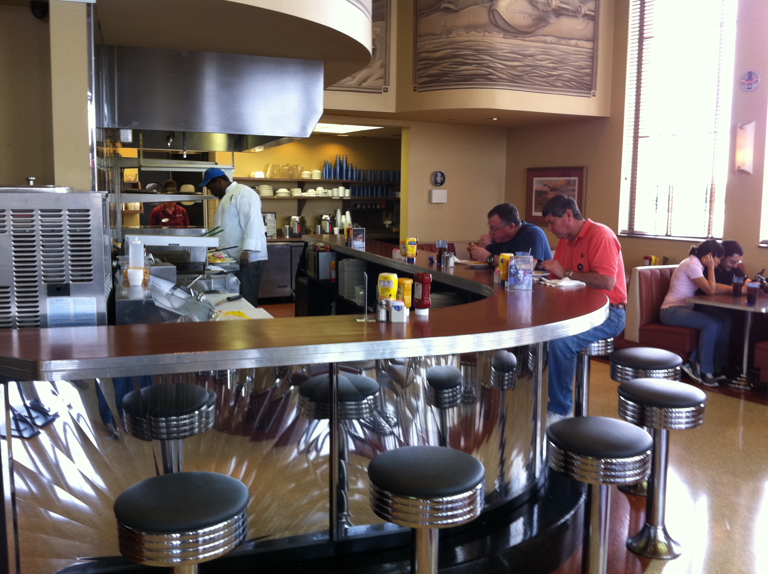 The Compass Rose Diner at Fantasy of Flight in Polk City, Florida.